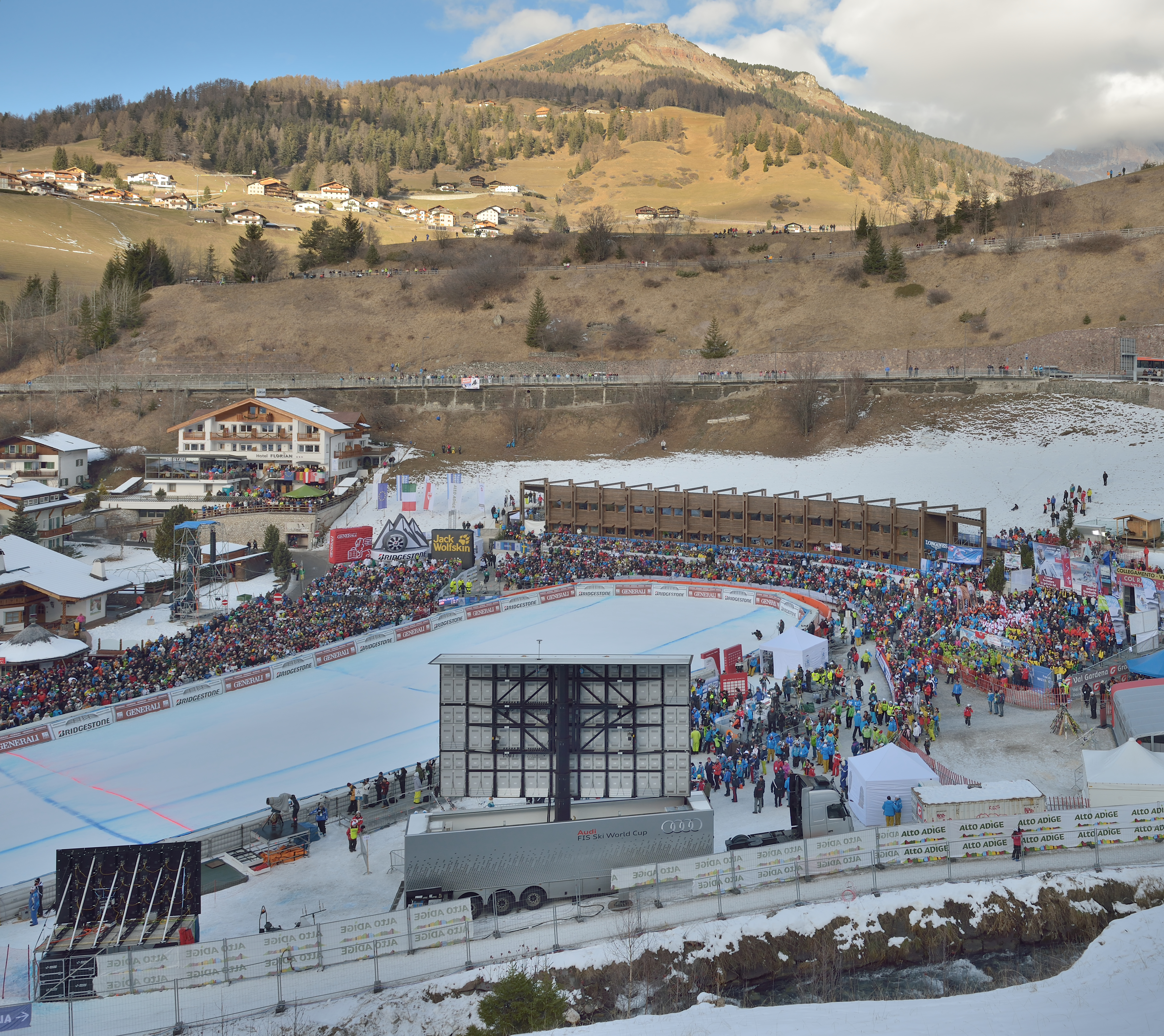 Arrival arena Fis Ski World Cup Val Gardena-Gröden - 46th Saslong Classic in Gröden